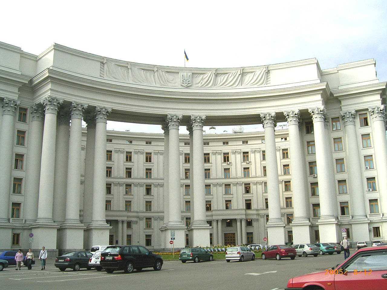 Foreign Ministery of Ukraine